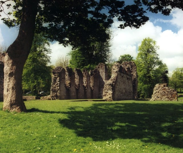 Time and Tide. Dudley Priory, founded in the 11th Century by an order of Cluniac Monks.